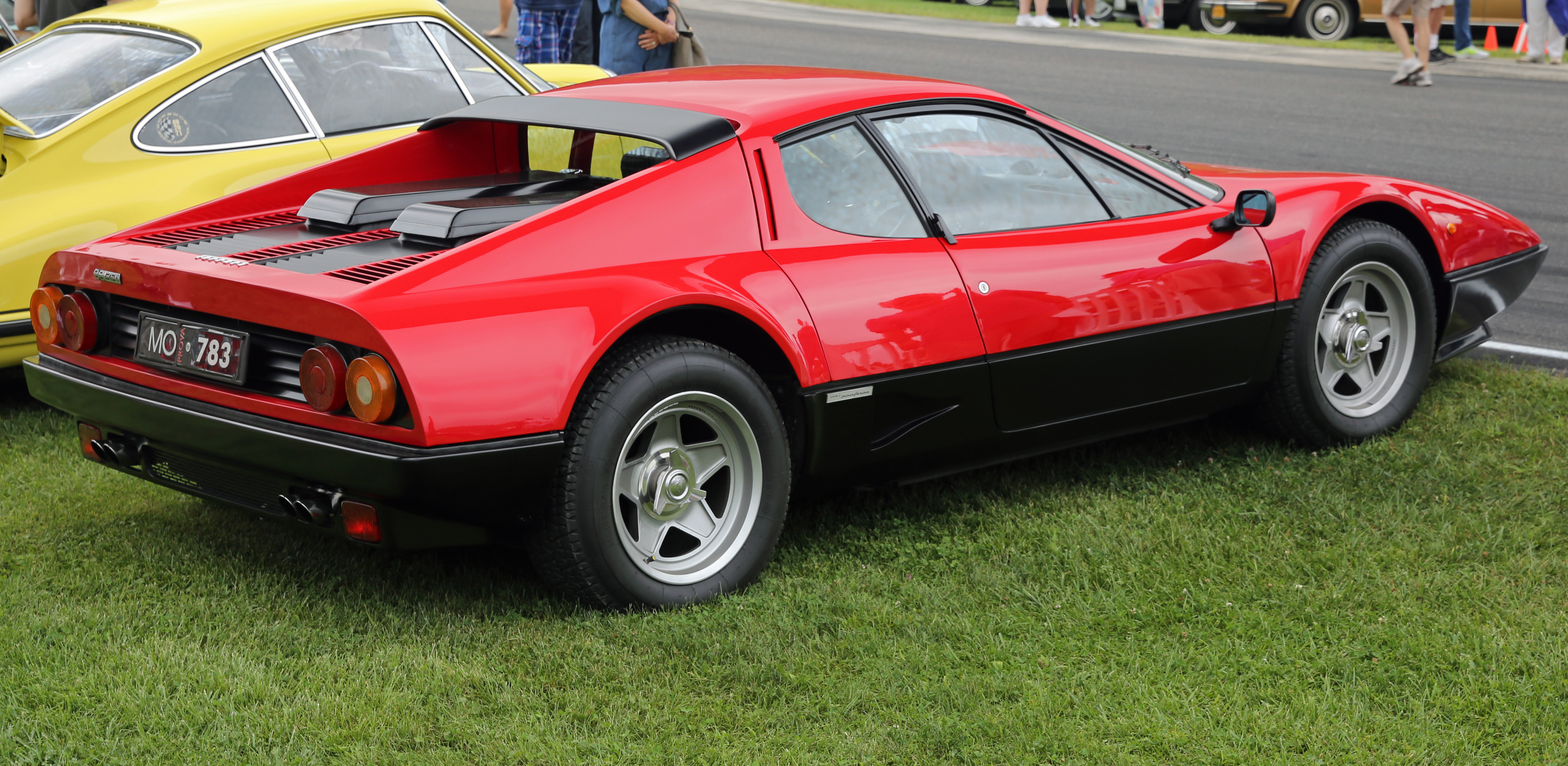 1983 Ferrari 512 BBi ("Berlinetta Boxer") at the 2014 Lime Rock Concours d'Élegance. I never liked the black-painted bottom half on the 'Boxer when I was a kid, but nowadays I find it much better looking than a single-colour paintjob.